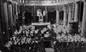 Newspaper drawing of Michael Collins funeral ( August 1922)